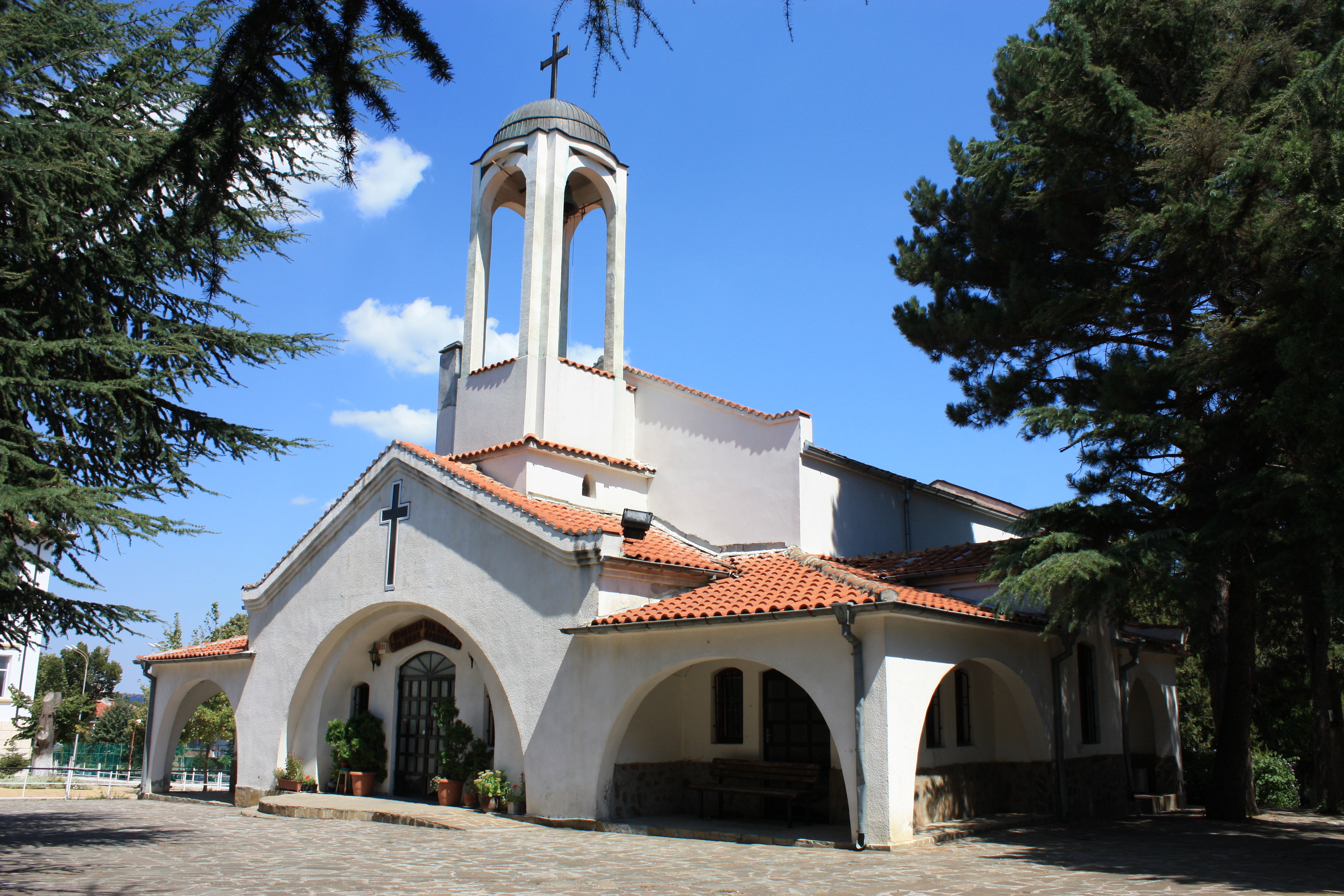 Orthodox Church St. John the Baptist in Obzor (Bulgaria), near the Street "Ivan Vazov".